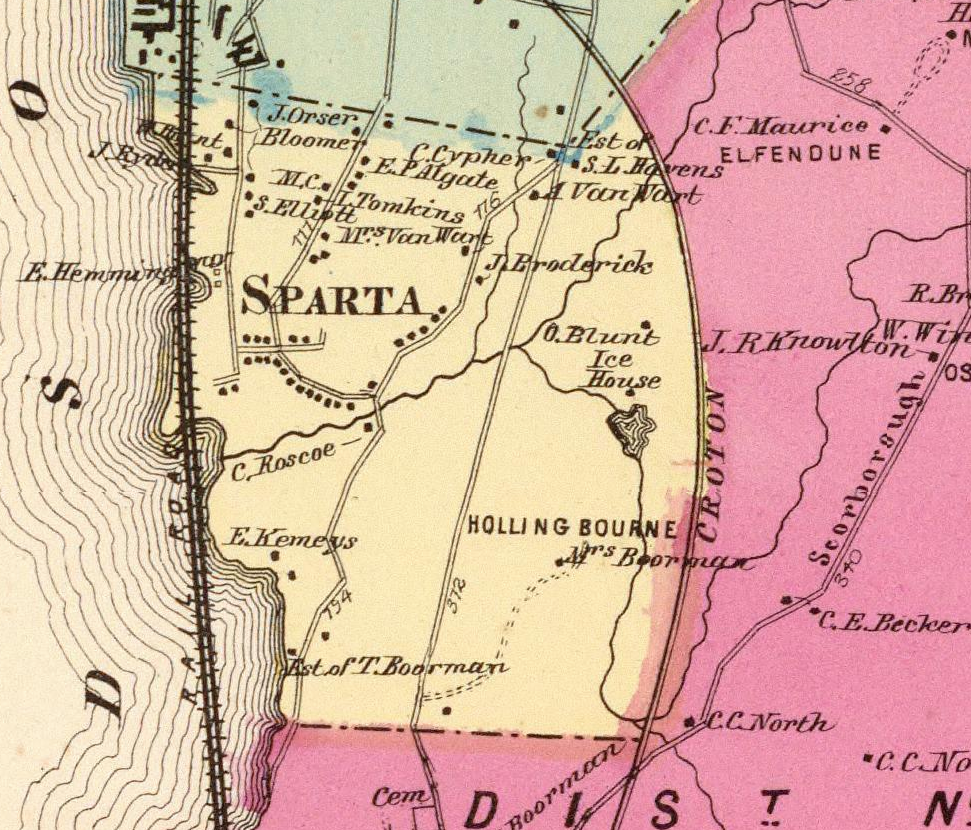 Map of the hamlet of Sparta, Westchester County, New York, on the Hudson River, United States, published in 1868 to the north is the village of Singsing, now Ossining, New York. Sparta is now a neighborhood of Ossining.